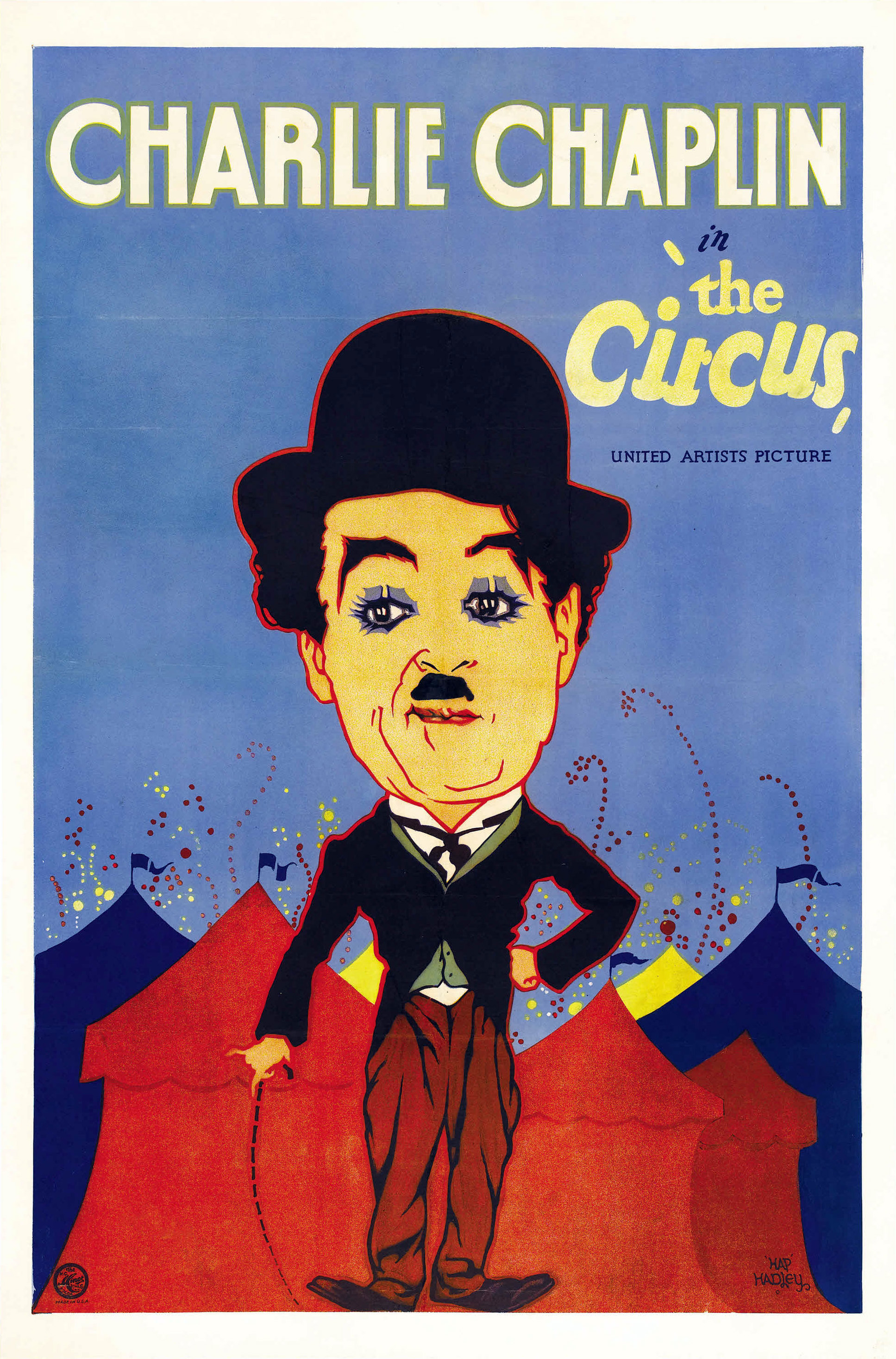 Poster for the American theatrical release of Charlie Chaplin's 1928 film The Circus.